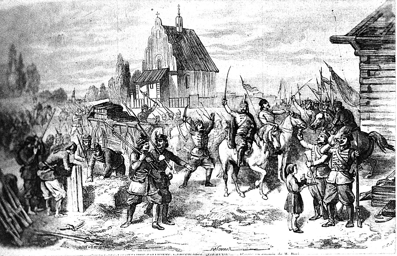 January Uprising insurgents entering Drużkopol in Wolhynia